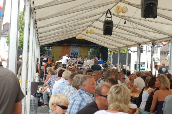 Festivalgata Kongsberg Jazzfestival